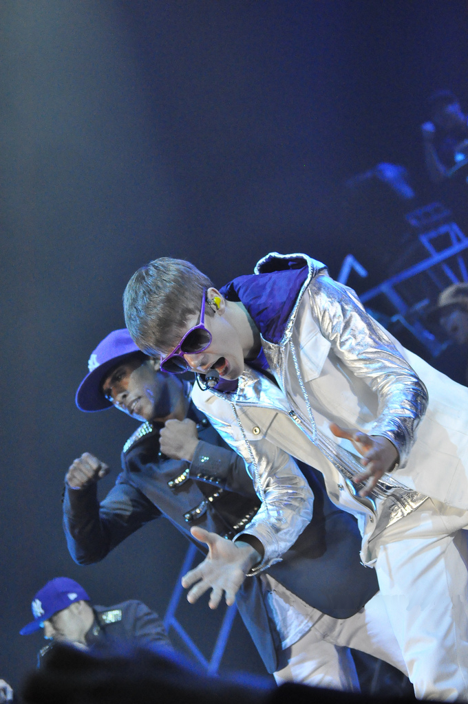 Justin Bieber at the Sentul International Convention Center in West Java, Indonesia.